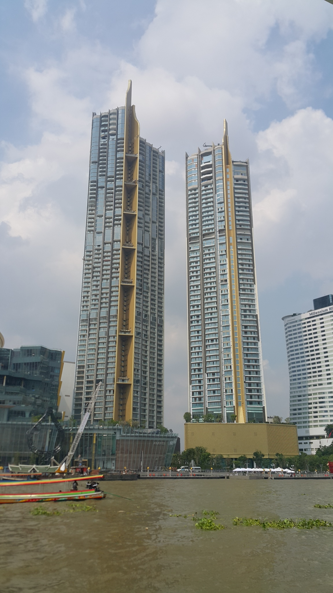 ICONSIAM, becoming the tallest building in Bangkok by overthrowing MahaNakhon, under construction